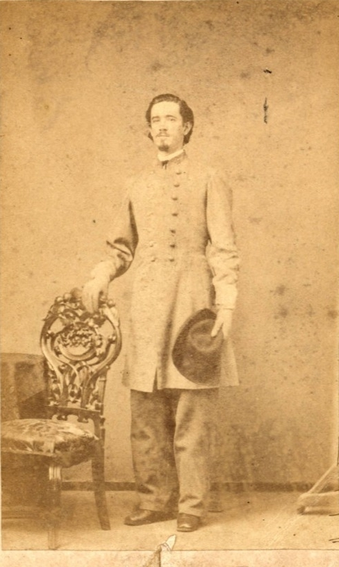 Major George W. Wells of the First Arkansas Mounted Rifles. Butler Center for Arkansas Studies, Central Arkansas Library System